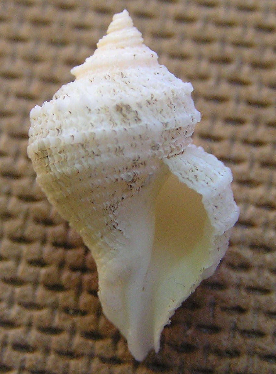 Nucella rolani (Bogi & Nofroni, 1984) , a murex snail in the family Muricidae; Portugal